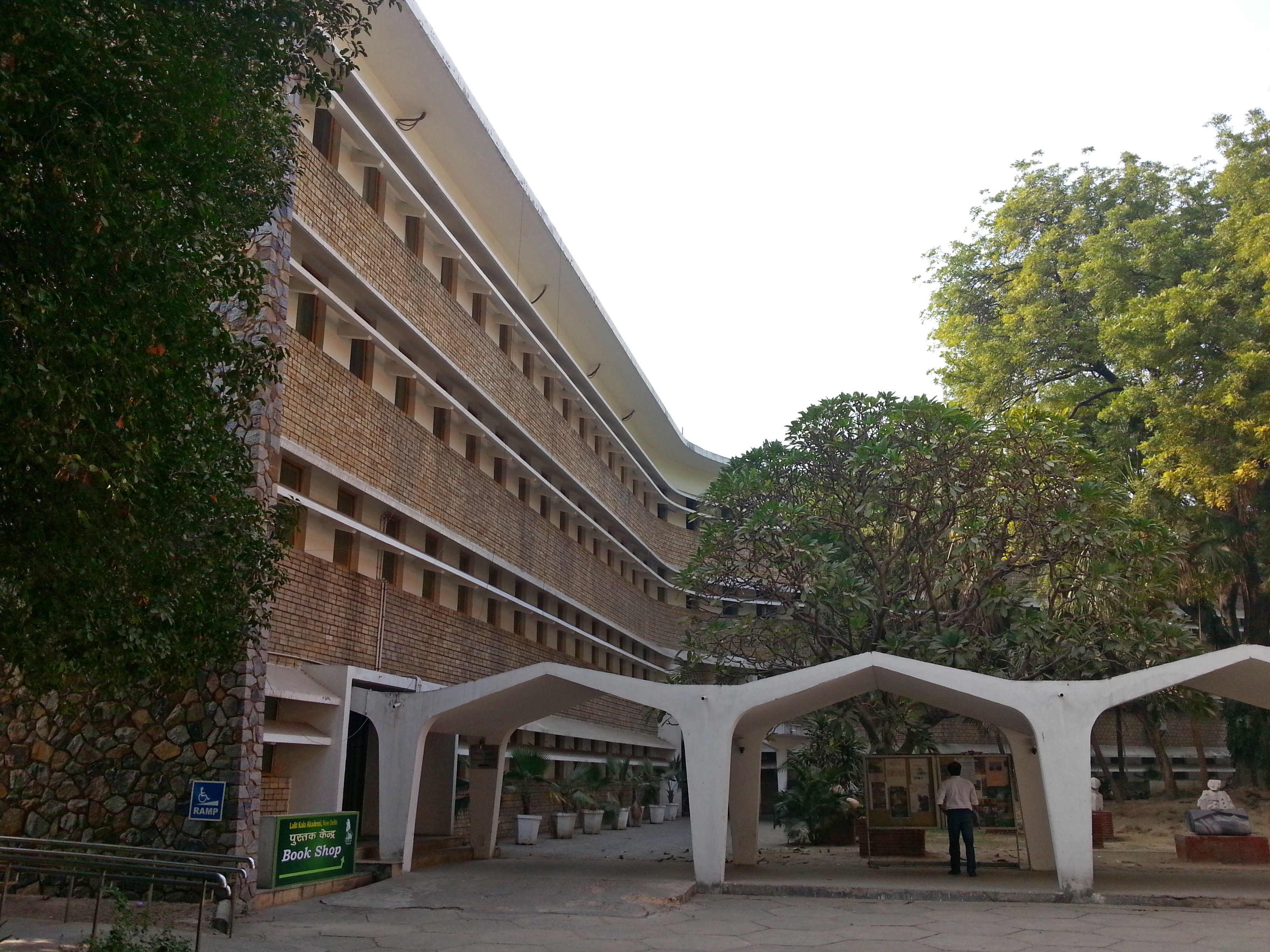 Rabindra Bhawan, Delhi houses a host of apex government of India bodies for arts and culture, including, the Sangeet Natak Akademi, the Lalit Kala Akademi